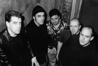 The Blimp 2002.